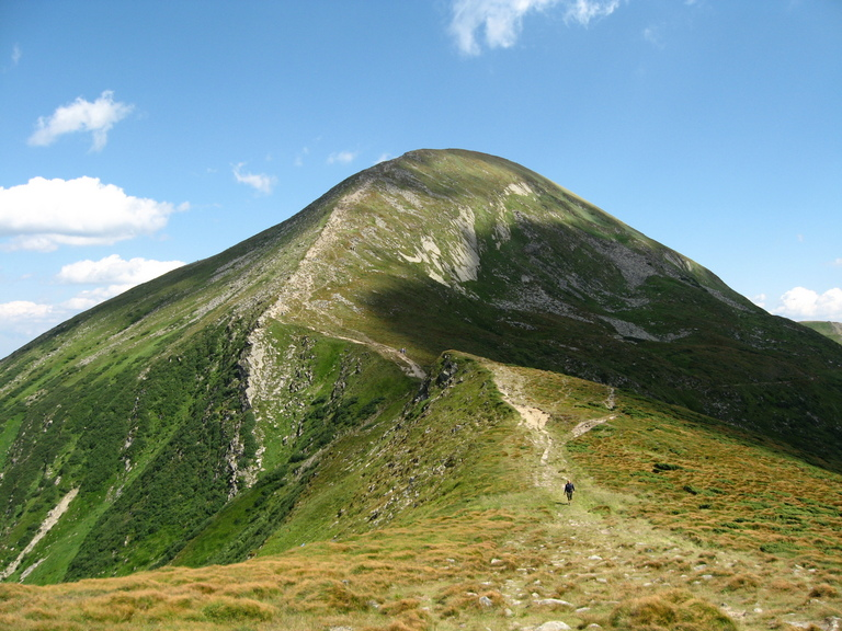 Hoverla mountain, 2007-07-28